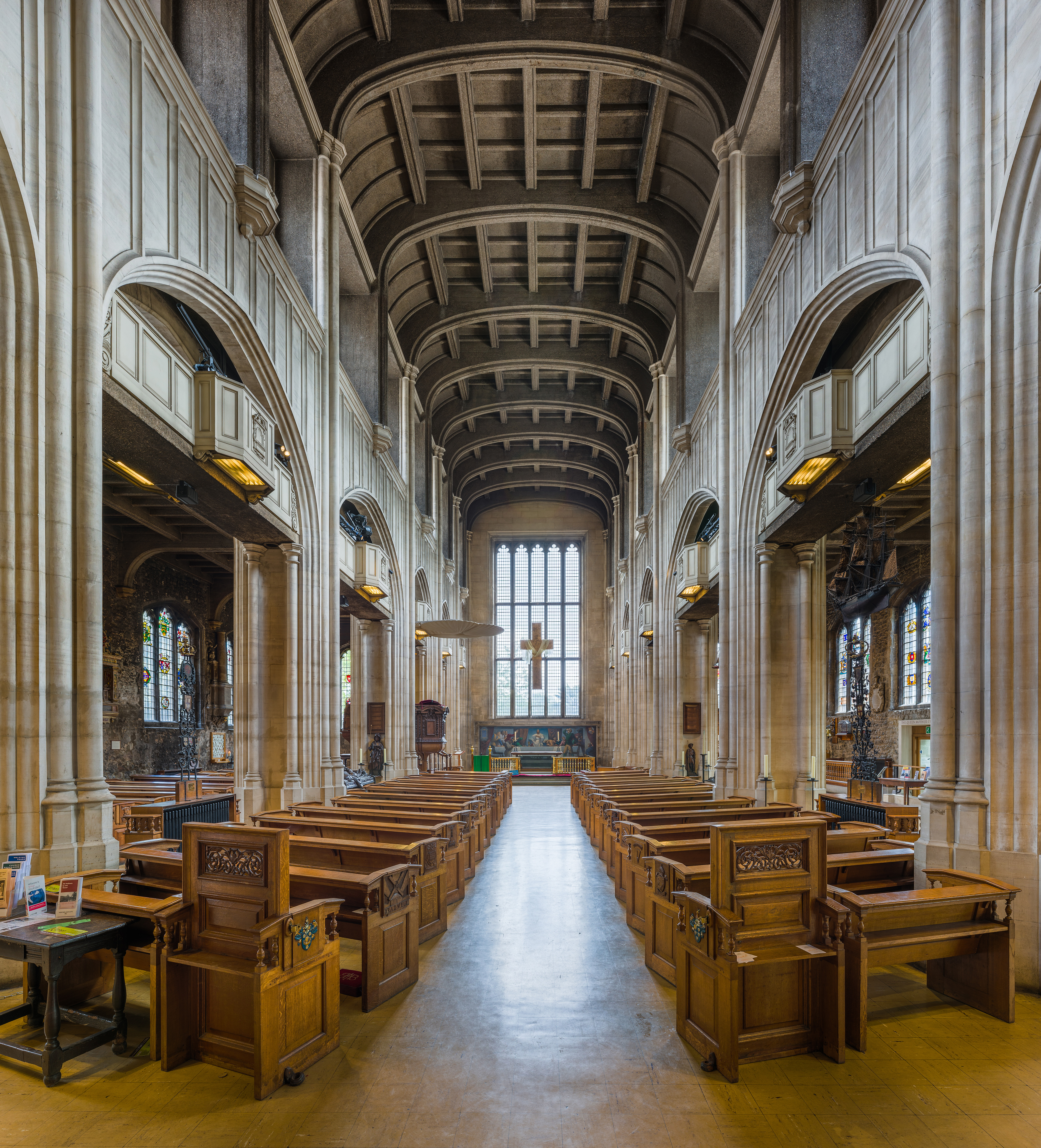 The interior of All Hallows-by-the-Tower in London, England, viewed from the western end looking towards the altar.